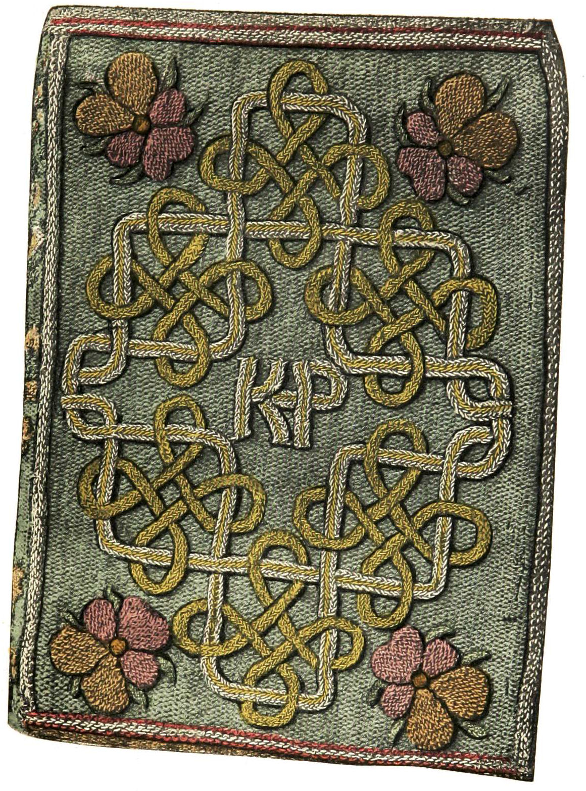 Embroidered bookbinding, The Miroir or Glasse of the Synneful Soul, manuscript by the Princess Elizabeth (later Elizabeth I of England) at age 11, 1544, and presented to her stepmother Catherine or Katherine Parr. "...Translated 'out of frenche ryme into english prose, joyning the sentences together as well as the capacitie of my symple witte and small lerning coulde extende themselves.' ...dedicated: 'From Assherige, the last daye of the yeare of our Lord God 1544 ... To our most noble and vertuous Quene Katherin, Elizabeth her humble daughter wisheth perpetuall felicitie and everlasting joye.' "The book is now one of the great treasures of the Bodleian Library; it is bound in canvas, measures about 7 by 5 inches, and was embroidered in all probability by the hands of the Princess herself... "The design is the same upon both sides. The ground is all worked over in a large kind of tapestry-stitch in thick pale blue silk, very evenly and well done, so well that it has been considered more than once to be a piece of woven material. On this is a cleverly designed interlacing scroll-work of gold and silver braid, in the centre of which are the joined initials K. P. "In each corner is a heartsease worked in thick coloured silks, purple and yellow, interwoven with fine gold threads, and a small green leaflet between each of the petals. The back is very much worn, but it probably had small flowers embroidered upon it."